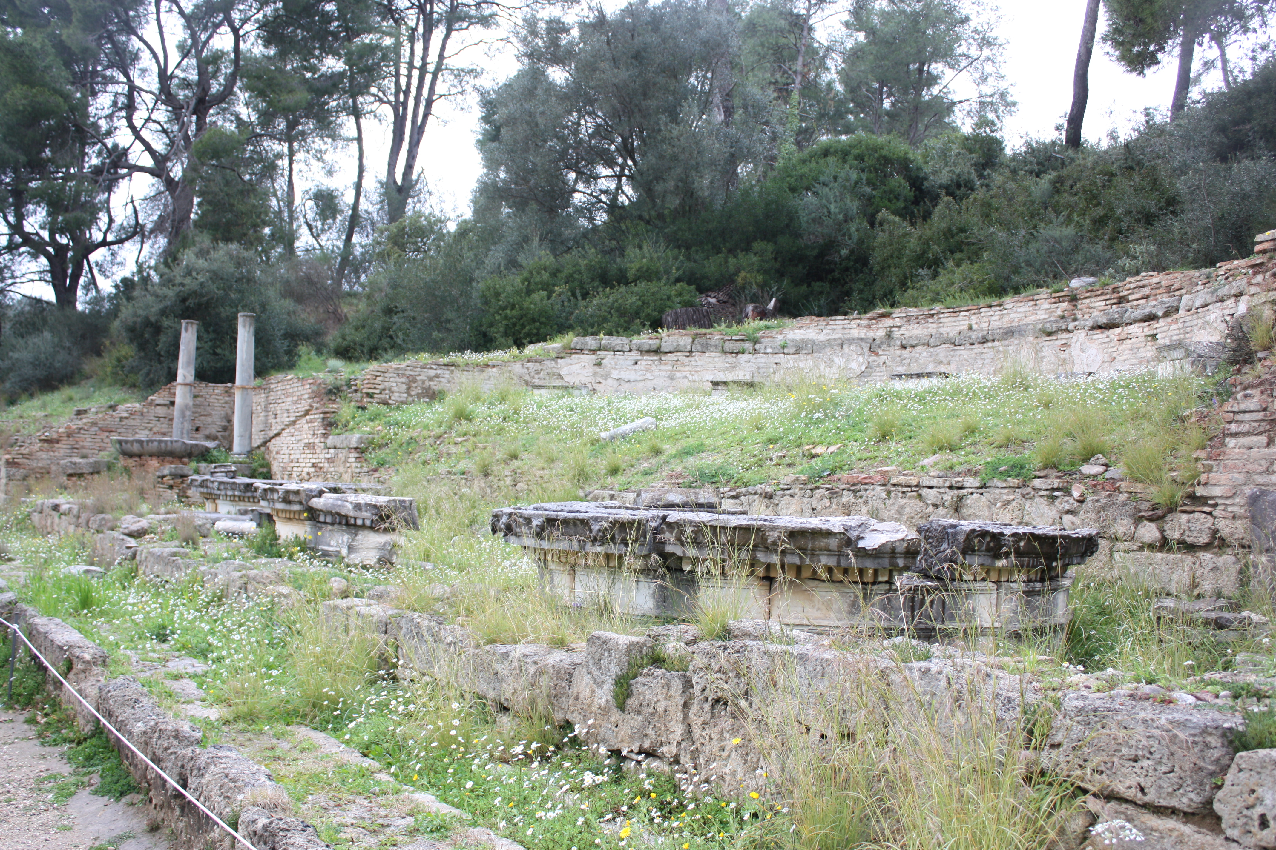 Nymphaeum of Herodes Atticus in northern Olympia, Greece.